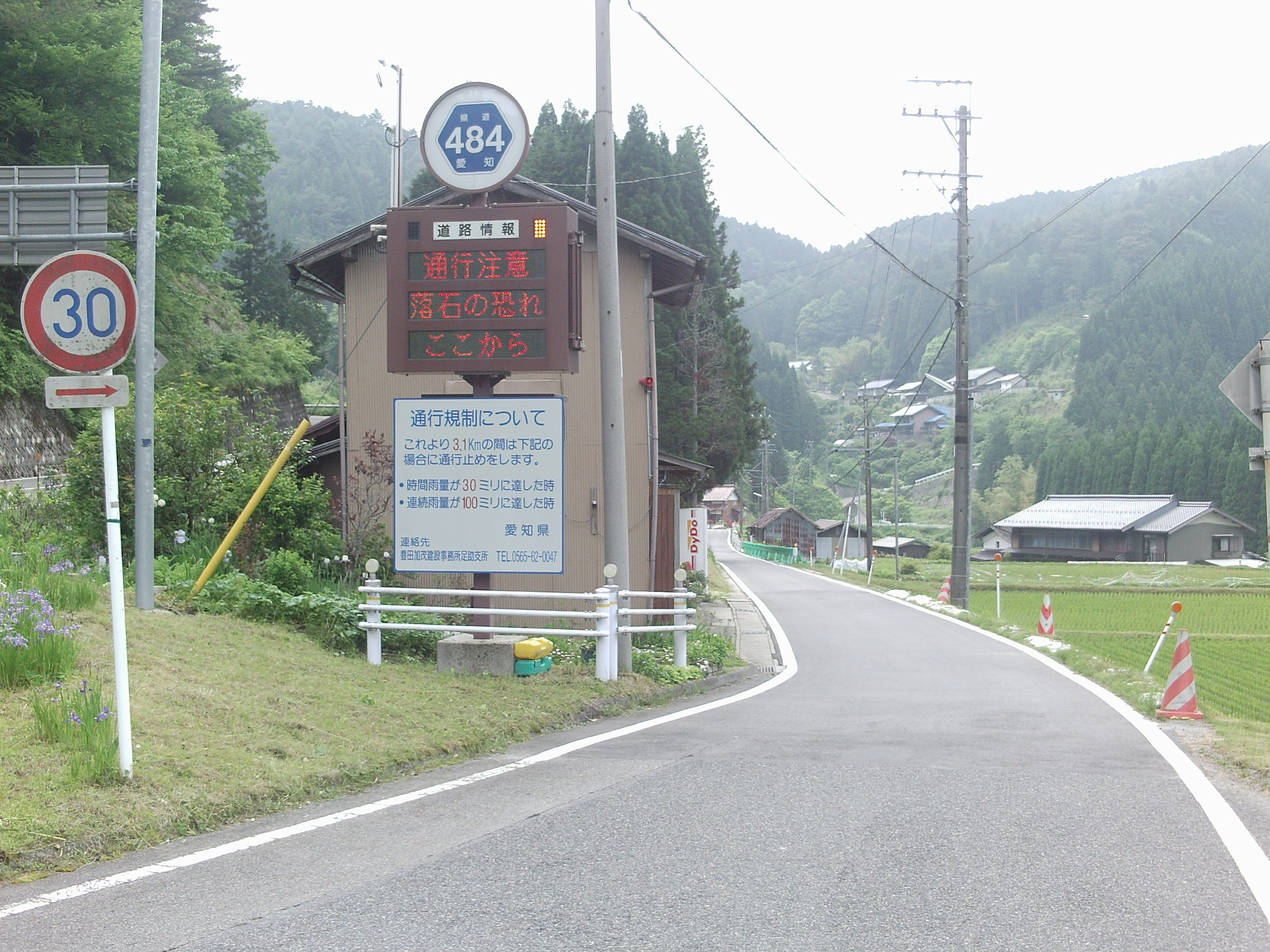 Aichi prefectural road No.484 in Otagacho, Toyota, Aichi.